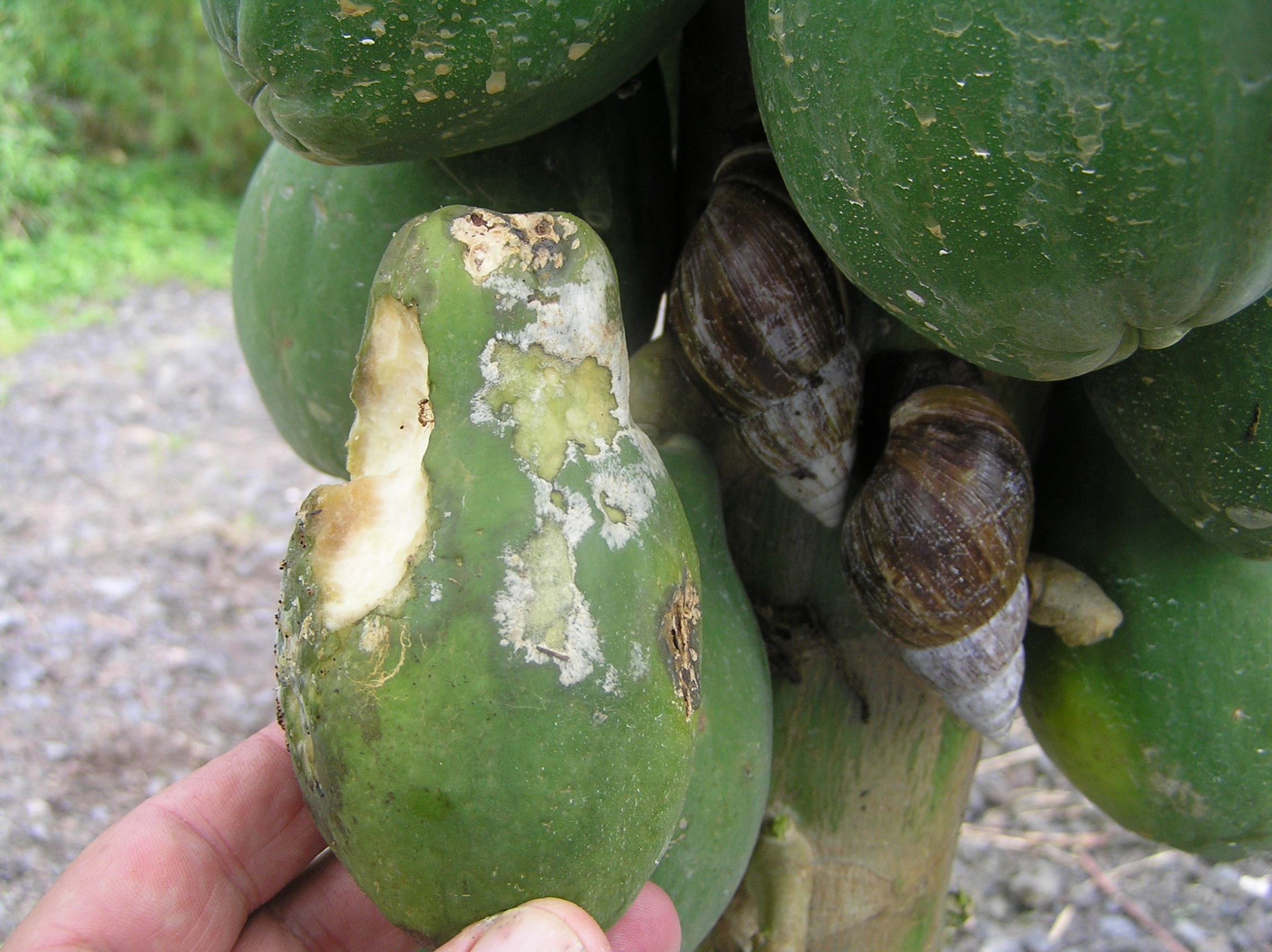 African snails (Achatina fulica) and their feeding injury to papaya fruits. The whitish mycelium is Phytophthora palmivora | Read